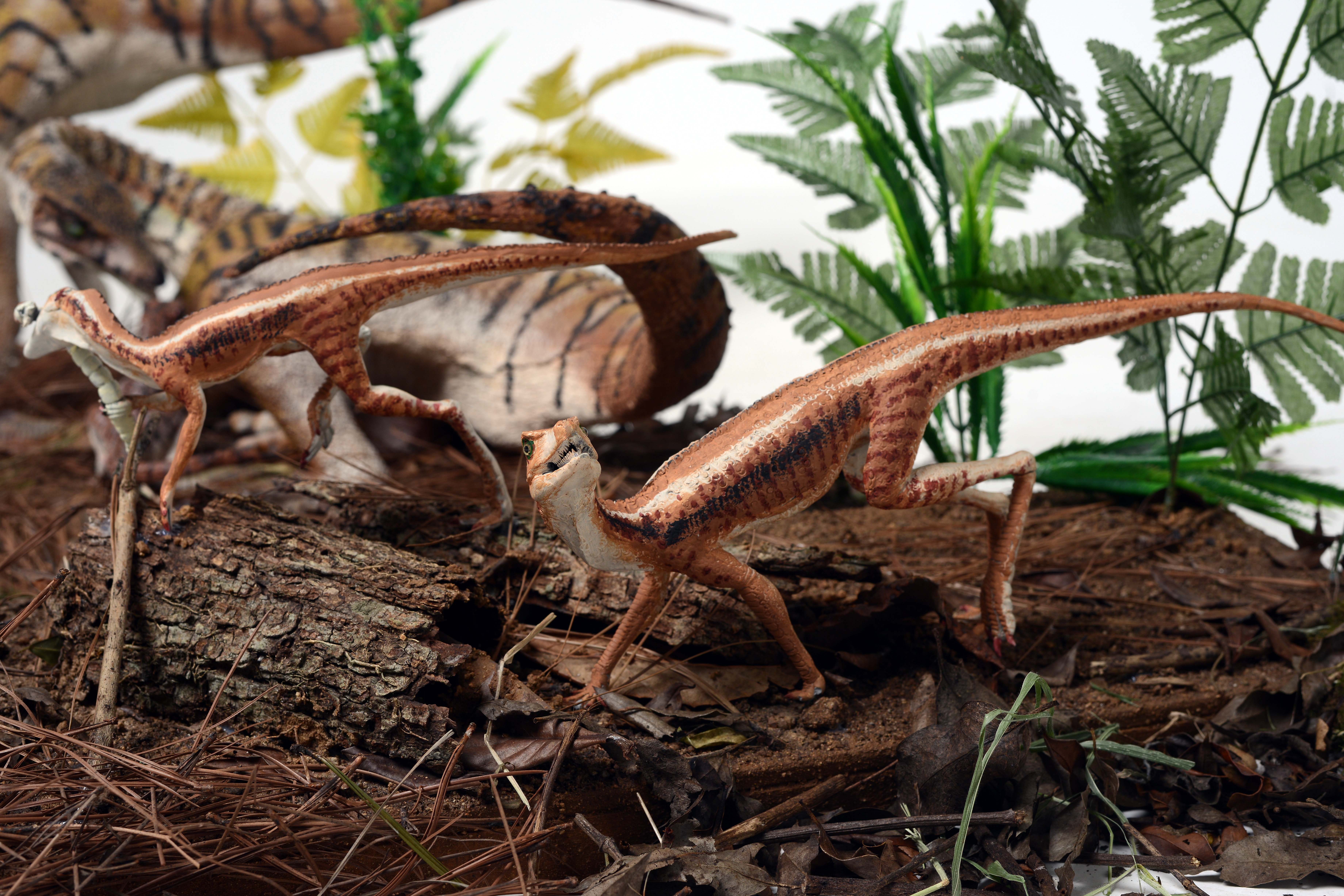 Descoberta realizada em 2009, em São João do Polêsine (RS), gerou estudos que contribuem para a compreensão da evolução dos dinossauros na Terra. Saiba mais no site .